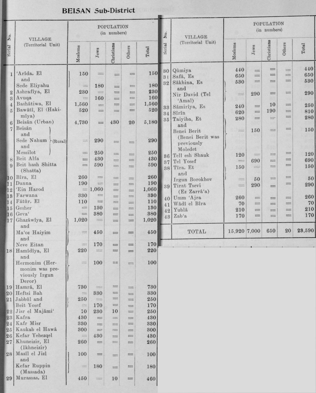 1945 Palestine Mandate Village Statistics